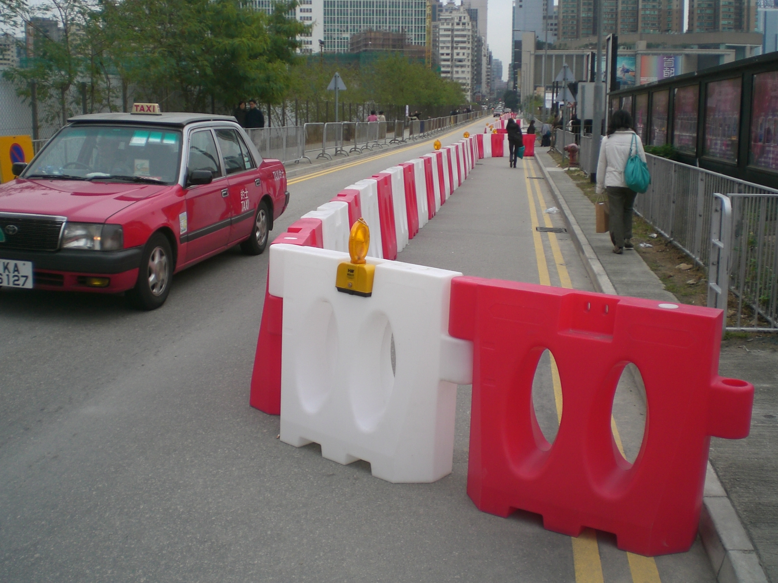 香港西九龍西九龍文娛藝術區-維港巨幕柯士甸道西, 人行道 & 水馬, Austin Road West, West Kowloon Cultural District